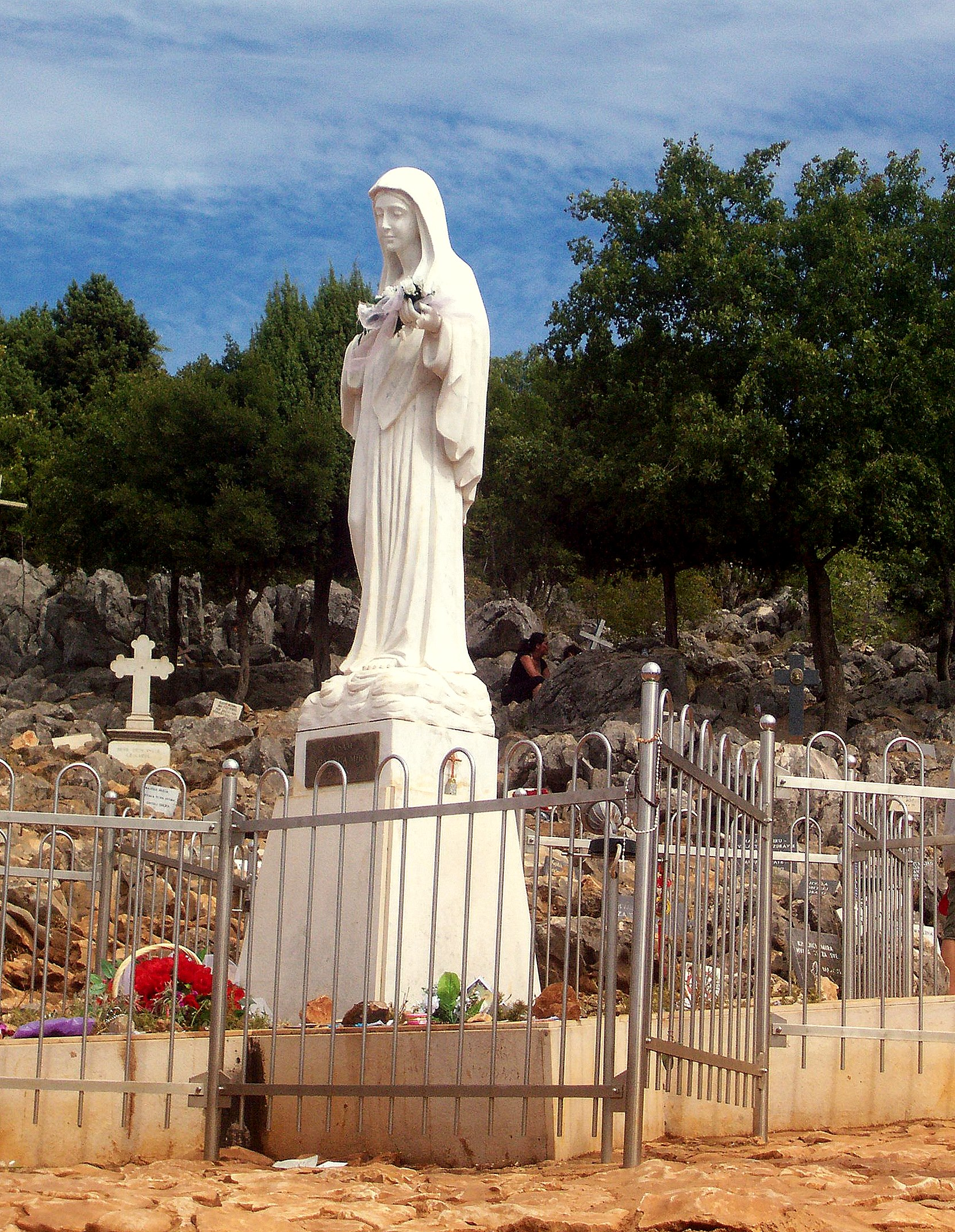 Statue of Maria in the place of revelation near Medjugorie, Hercegovina.